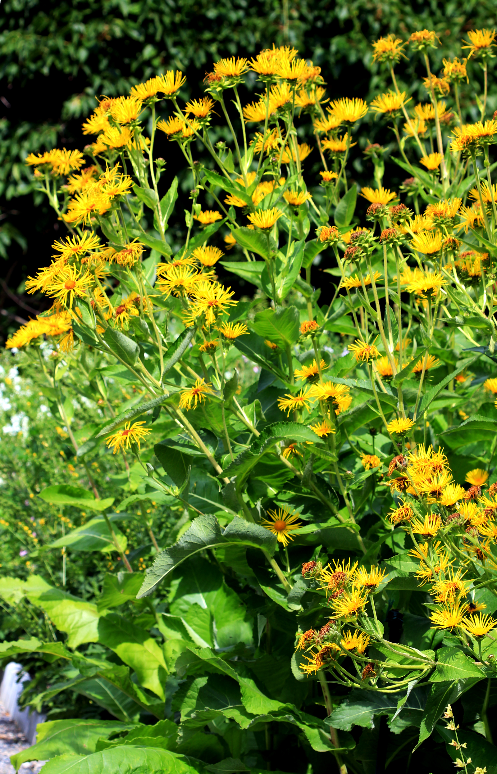 Flowering plant Elecampane, Inula helenium from Botanical Garden of Charles University in Prague, Czech Republic